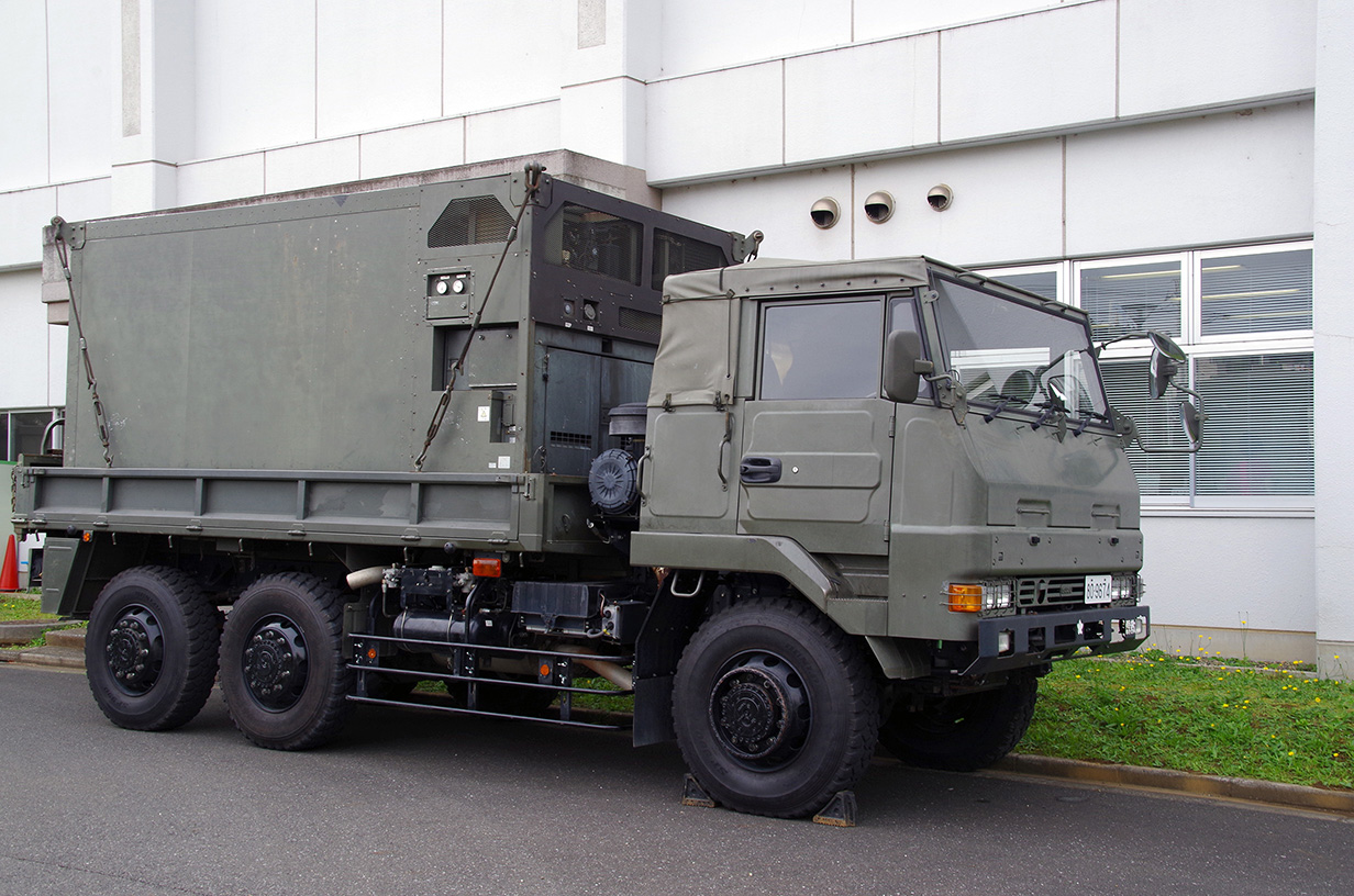 Refrigerator vehicle (based on 3.5t truck). 30 Sep. 2017 at Camp Matsudo, own work.